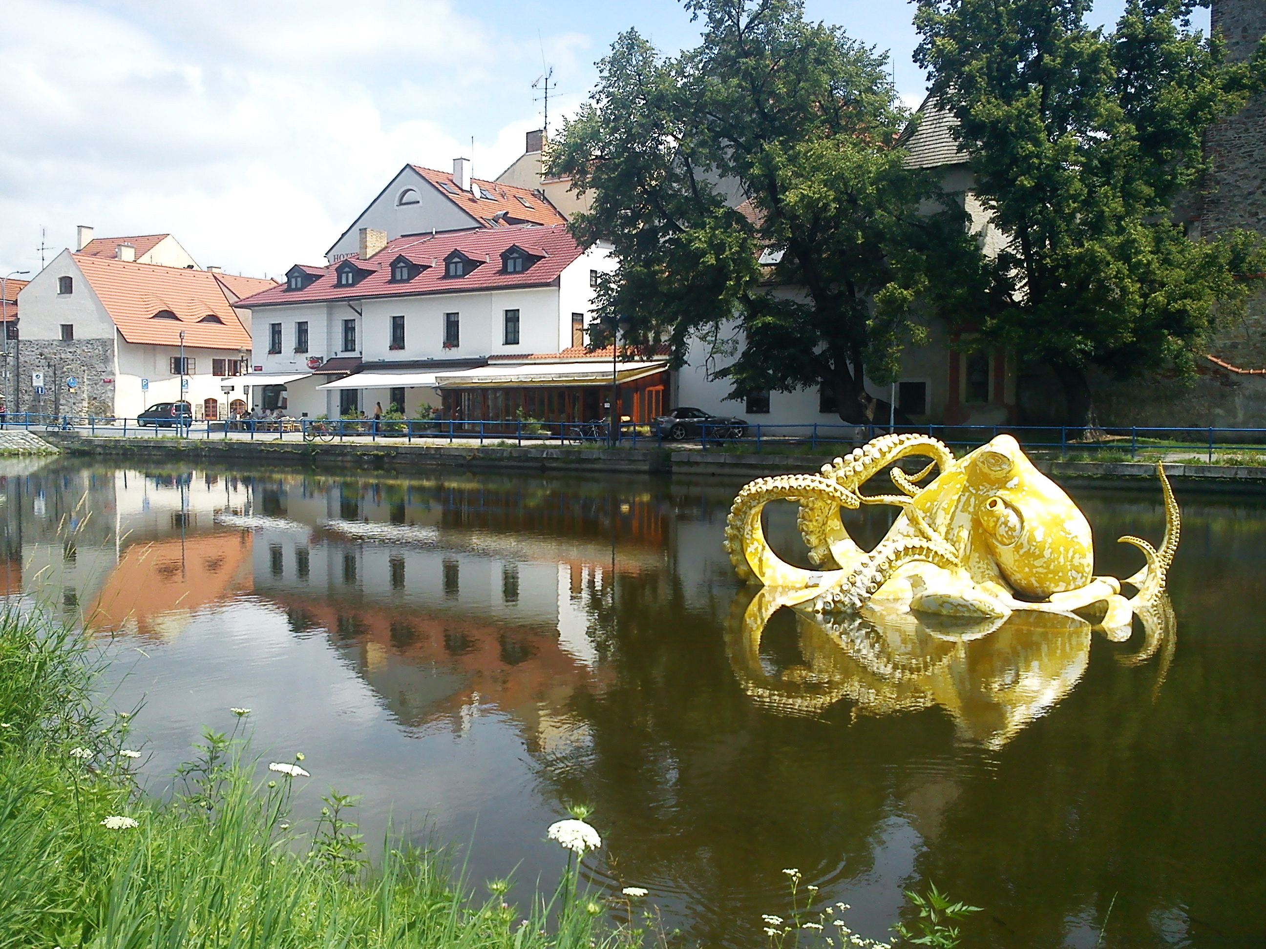 "Elise the Octopus" by Viktor Paluš displayed in the blind arm of the Malše River during the "Art in Town 2012" exhibition in České Budějovice